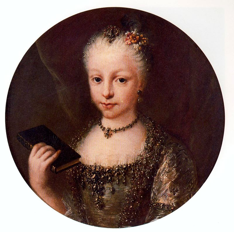 Portrait of Mariana Victoria of Spain, Queen Consort of Portugal